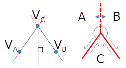 Triple junction theory